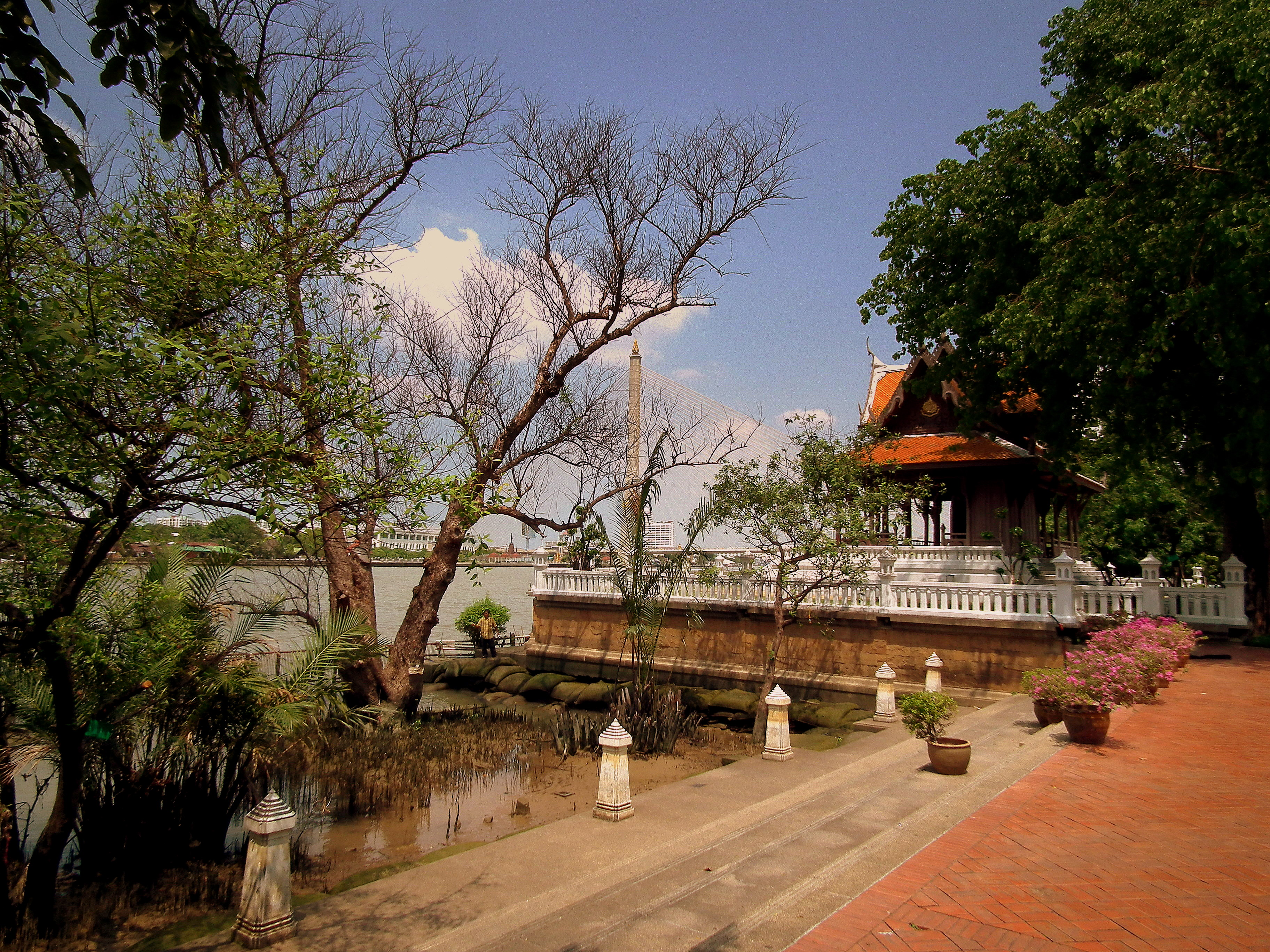 BANGKOK THAILAND FEB 2012